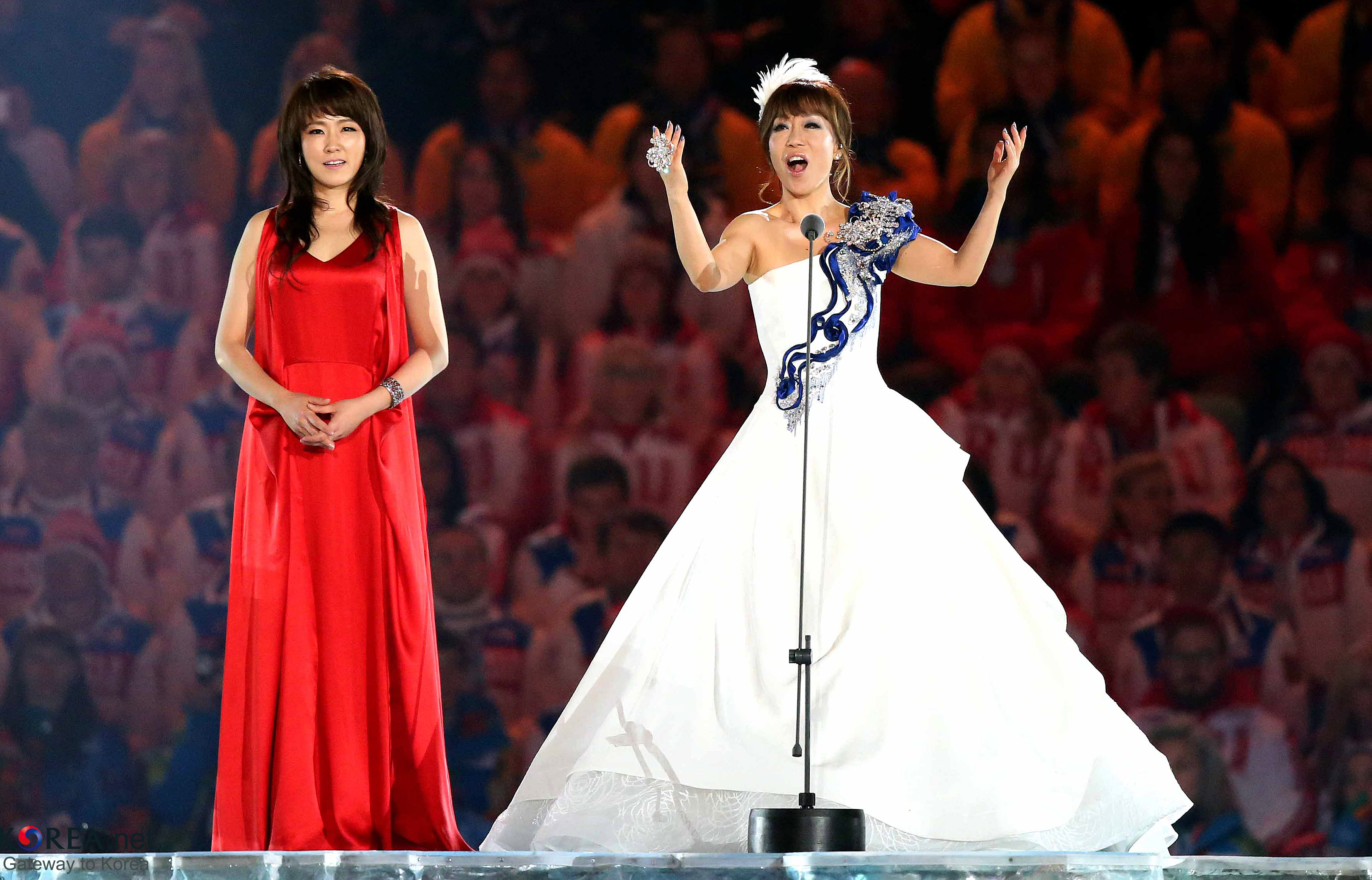 The Closing Ceremony of The Sochi 2014 Winter Olympic Games February 23, 2014 Fisht Olympic Stadium, Sochi, Russia 2014 소치 동계올림픽 폐막식 2014-02-23 러시아, 소치. 피시트 올림픽 스타디움